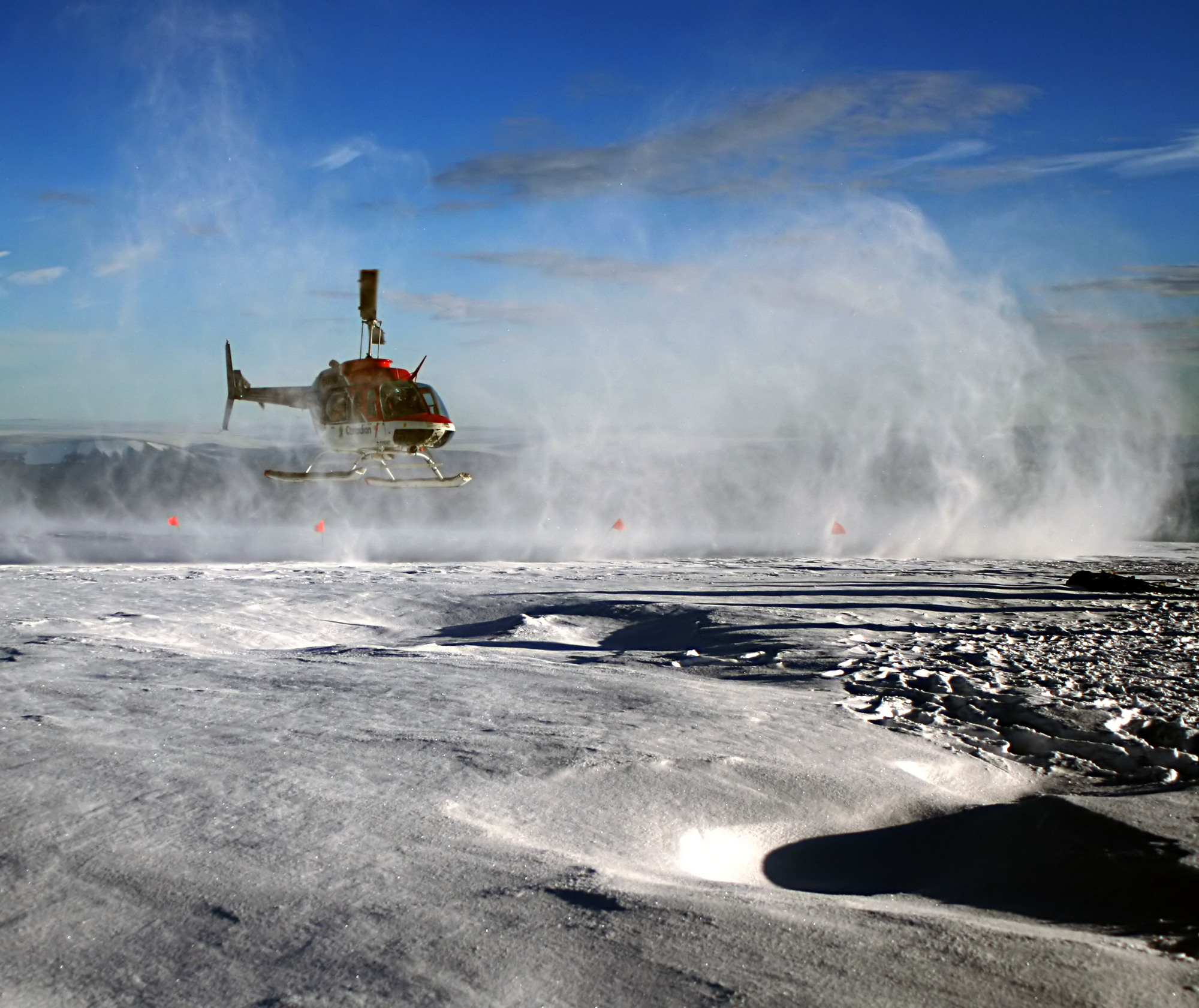 A helicopter is taking off Greenland Ice Sheet